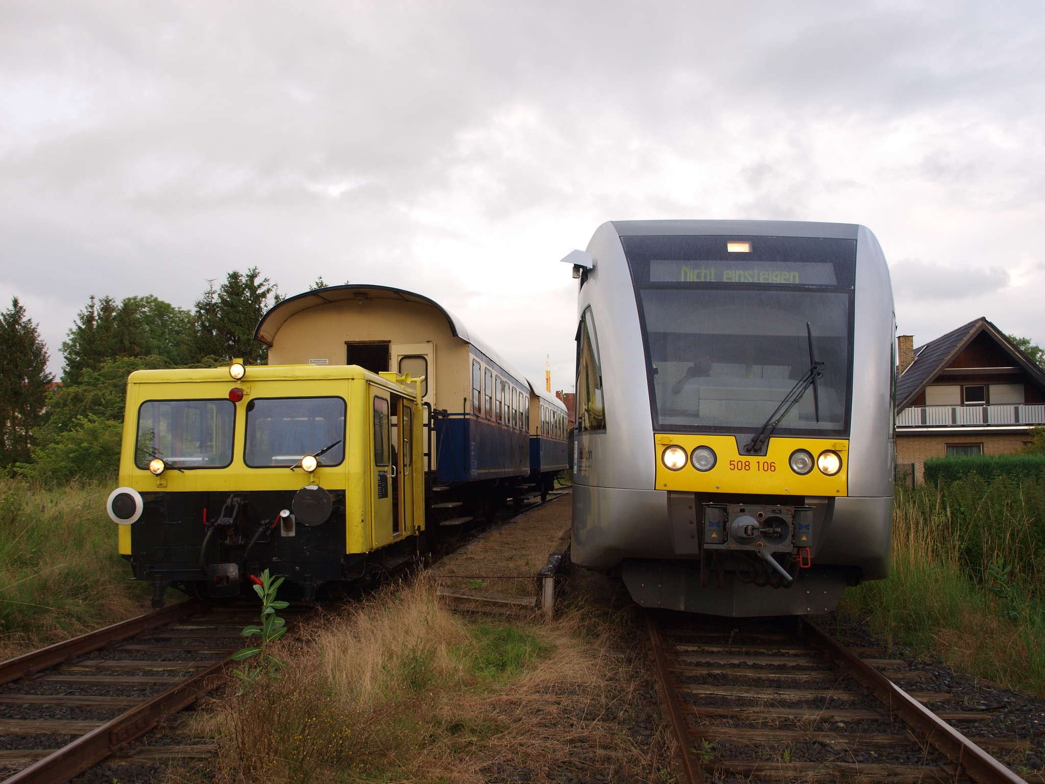 Bad Nauheim-Steinfurth station: Rosenfest trains with ÖBB X626 (left) and GTW 2/6 (right)